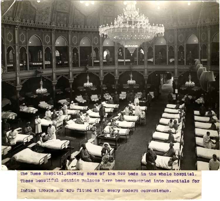 The Dome Hospital [Brighton], showing some of the 689 beds in the whole hospital. These beautiful seaside palaces have been converted into hospitals for Indian troops, and are fitted with every modern convenience.